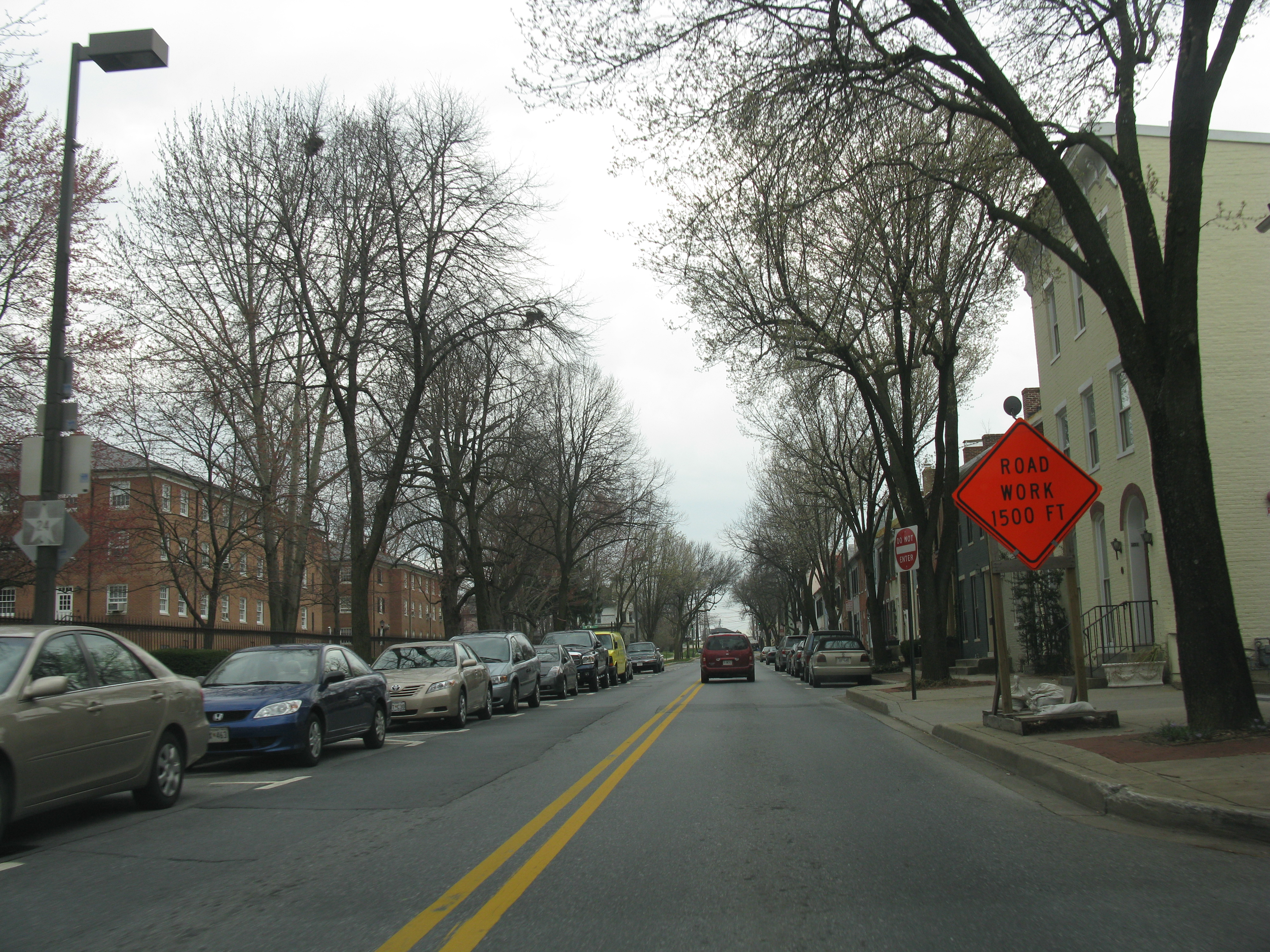 MD 355 (S Market St) approaching Madison Street / Clarke Place, Frederick, MD